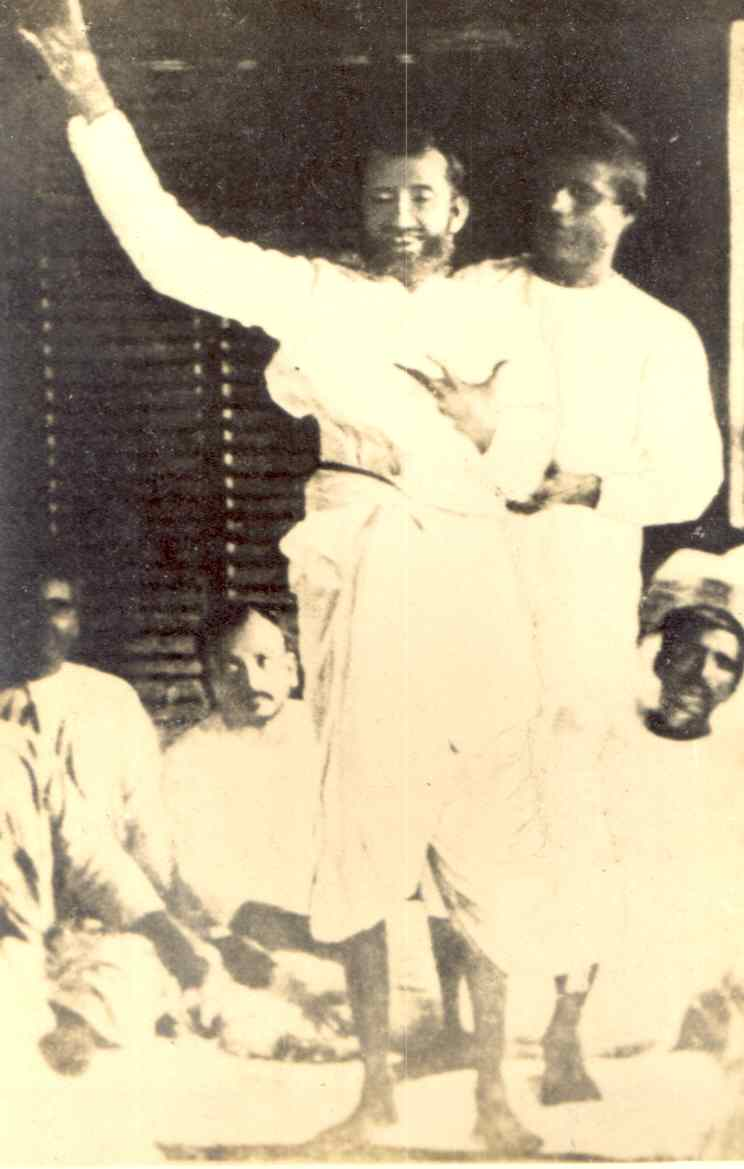 Ramkrishna Paramahamsadev at Kamal Kutir, residence of Keshub Chunder Sen, in 1879.